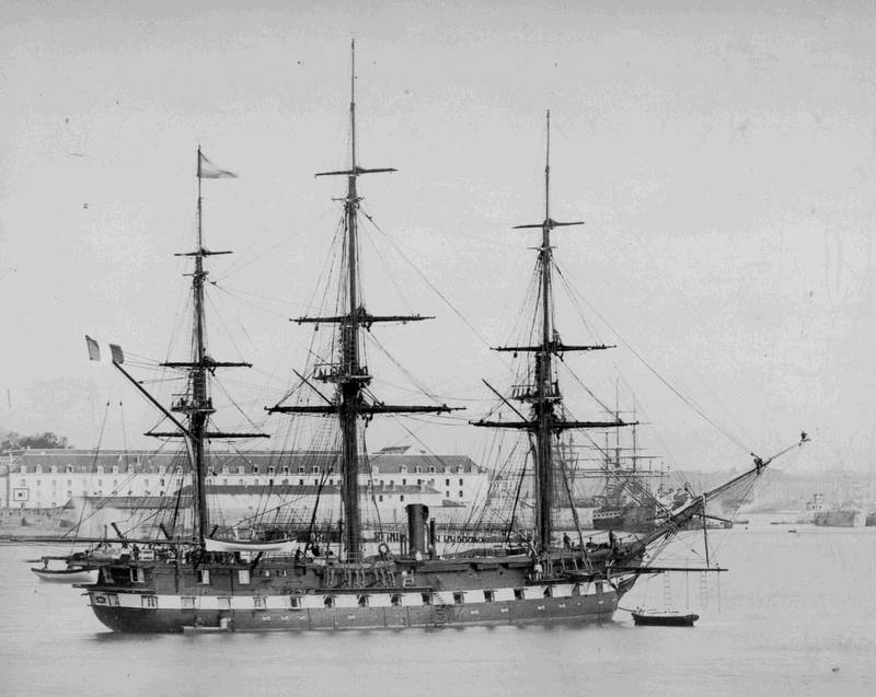 The aviso Clorinde (1845)